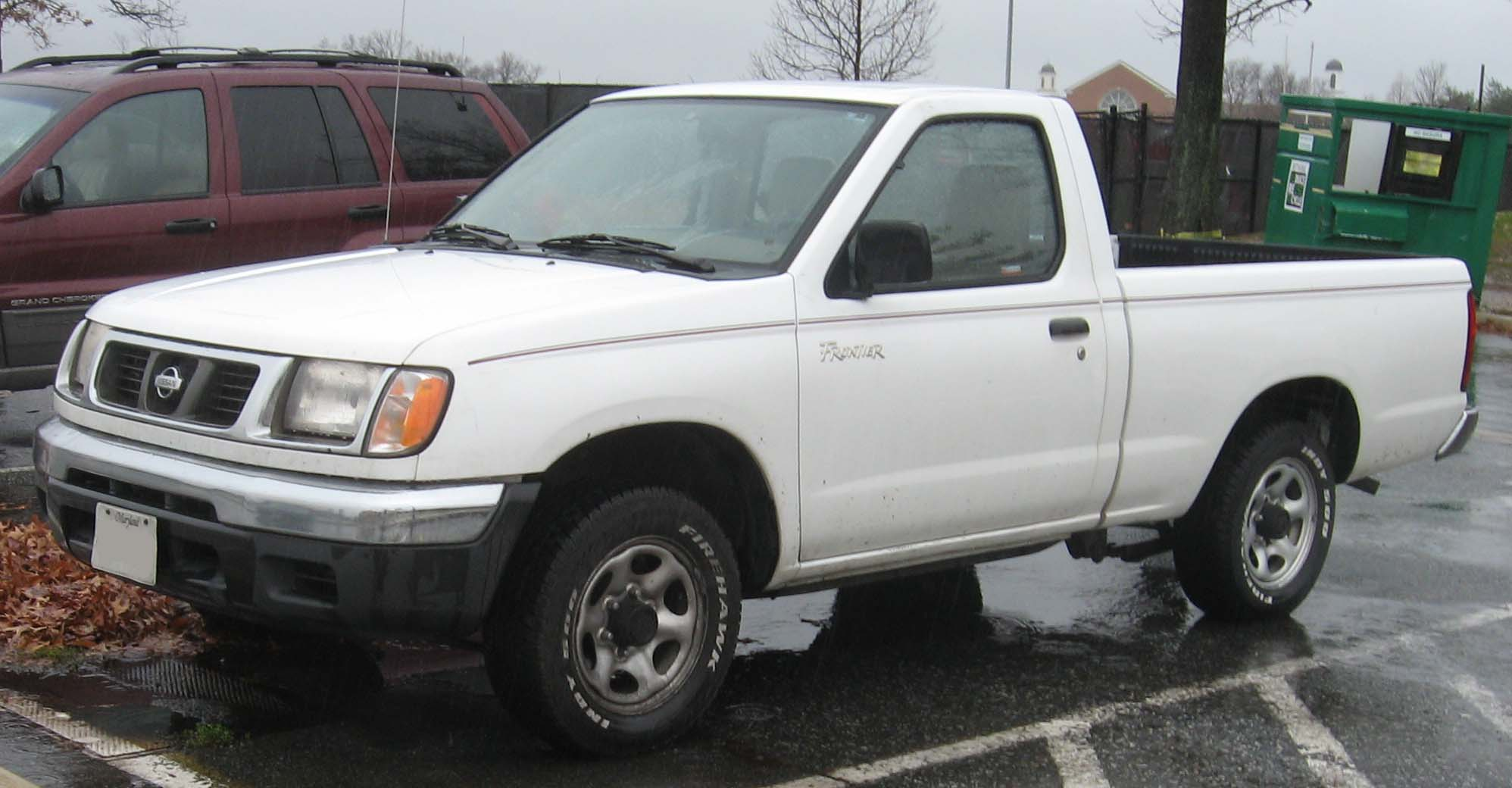 1998-2000 Nissan Frontier photographed in College Park, Maryland, USA.